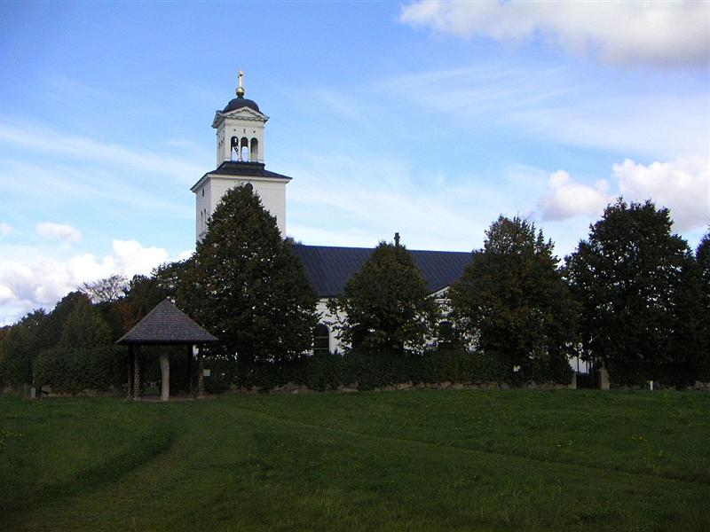 Photo: Bengt Olof Åradsson Location: Rök, near Ödeshög in south Sweden